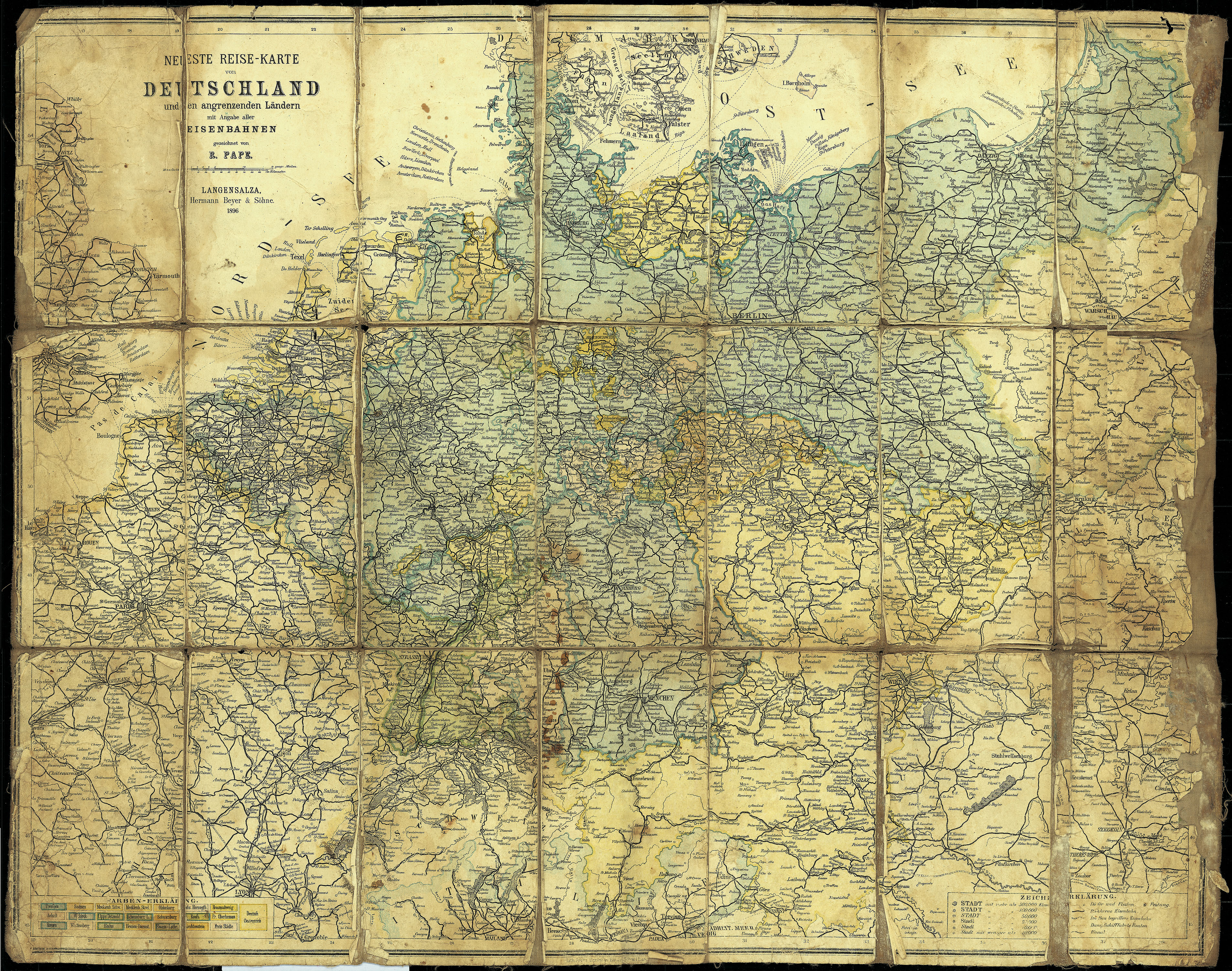 Travelers map incl. all known railroads in Germany 1896